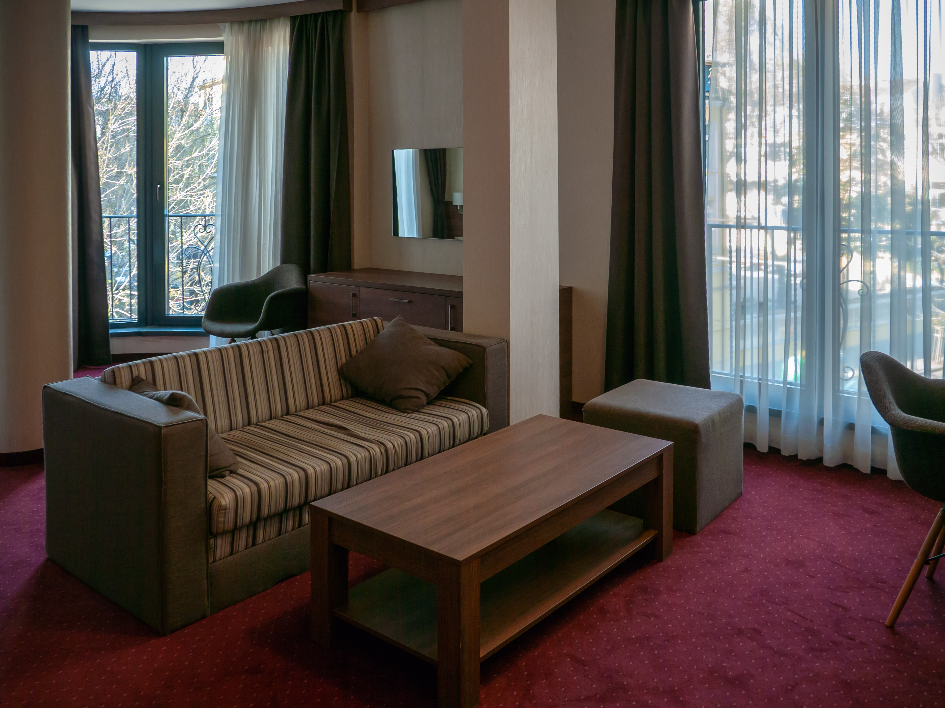 Coop-Hotel, Sofia, Bulgaria